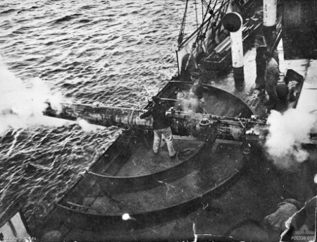 Part of AWM caption : Unidentified sailors fire a torpedo aboard the German armed merchant raider, SMS Wolf.